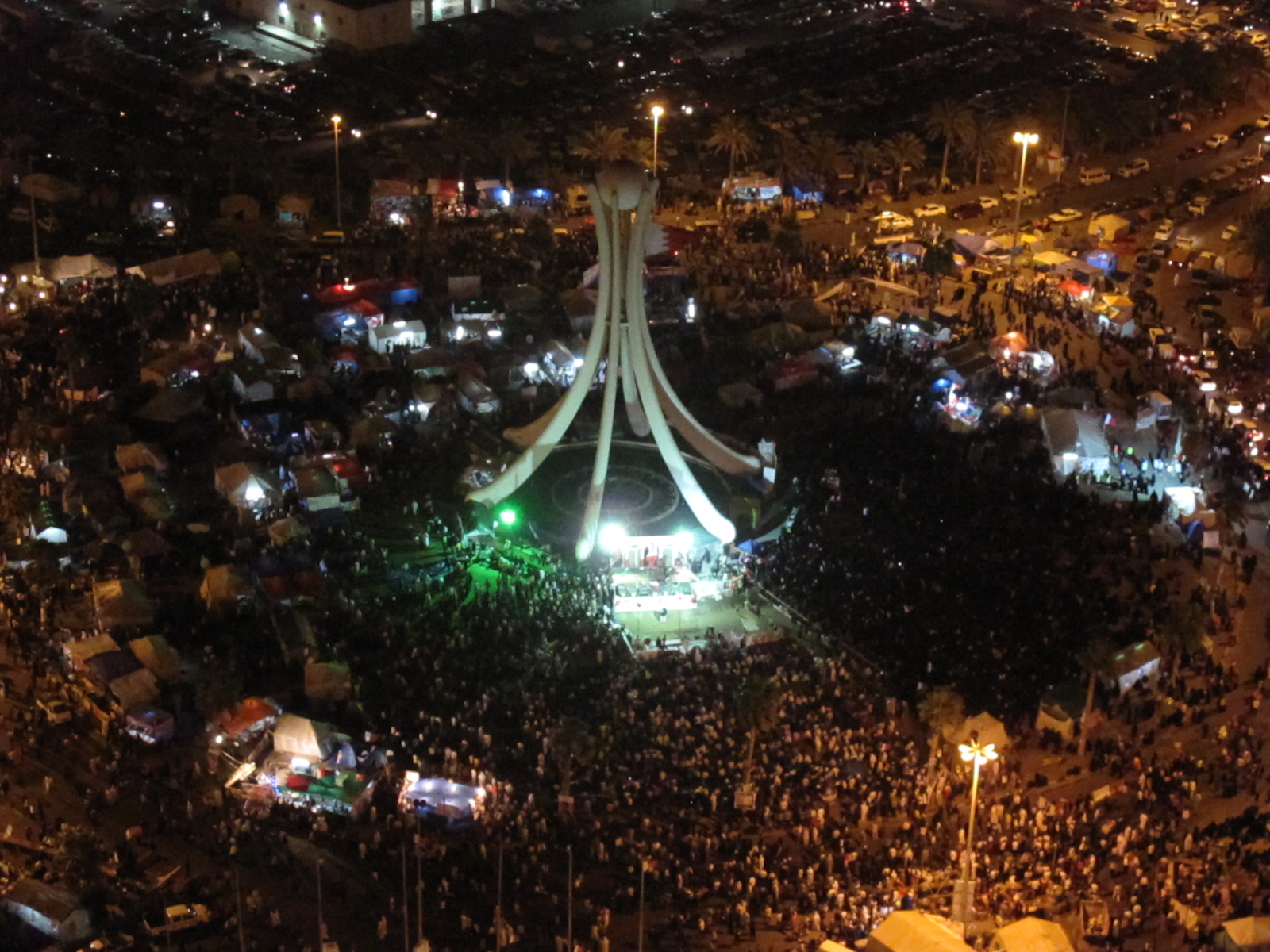 Picture related to 2011 Bahraini uprising - taken in march